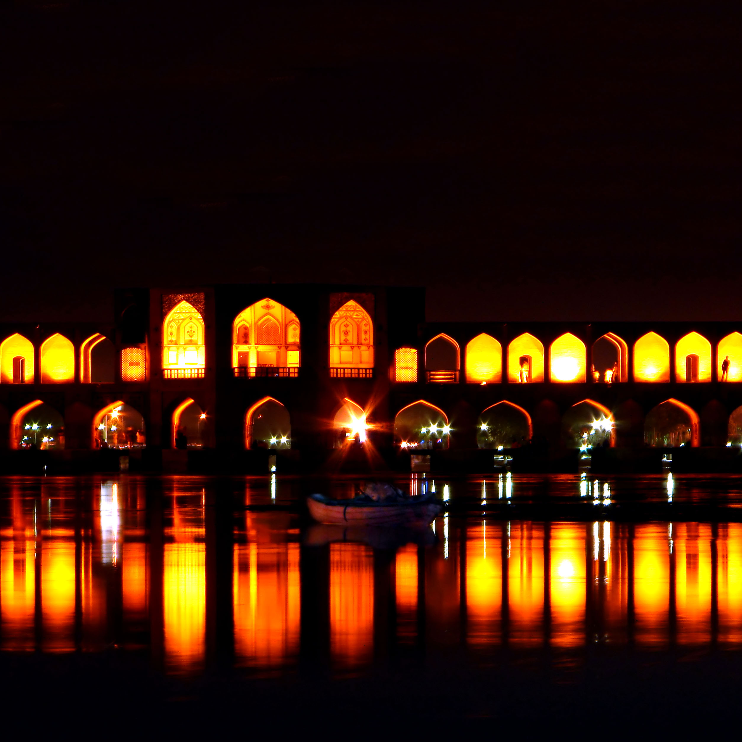 This is Khaju Bridge in Isfahan, which was made about 400 years ago! Check the Google satellite imagery of this amazing bridge here: [1] Added to flickr Explore (interestingness) page of 5 August 2006. (8th rank in 06/08/16)Khaju Bridge, Isfahan